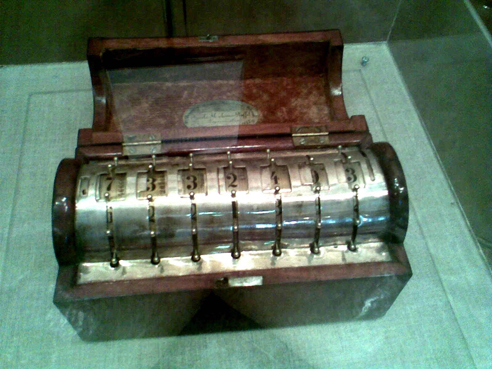 The oldest existing Polish calculator, built in 1842 by Abraham Izrael Staffel. Gears has been placed in a locked walnut case. The machine was able to add, substract and convert between złotys and rubles. Exhibit of the Warsaw Museum of Technology (Muzeum Techniki)